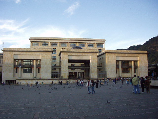 The Palace of Justice in the Republic of Colombia. Bogotá, Colombia.